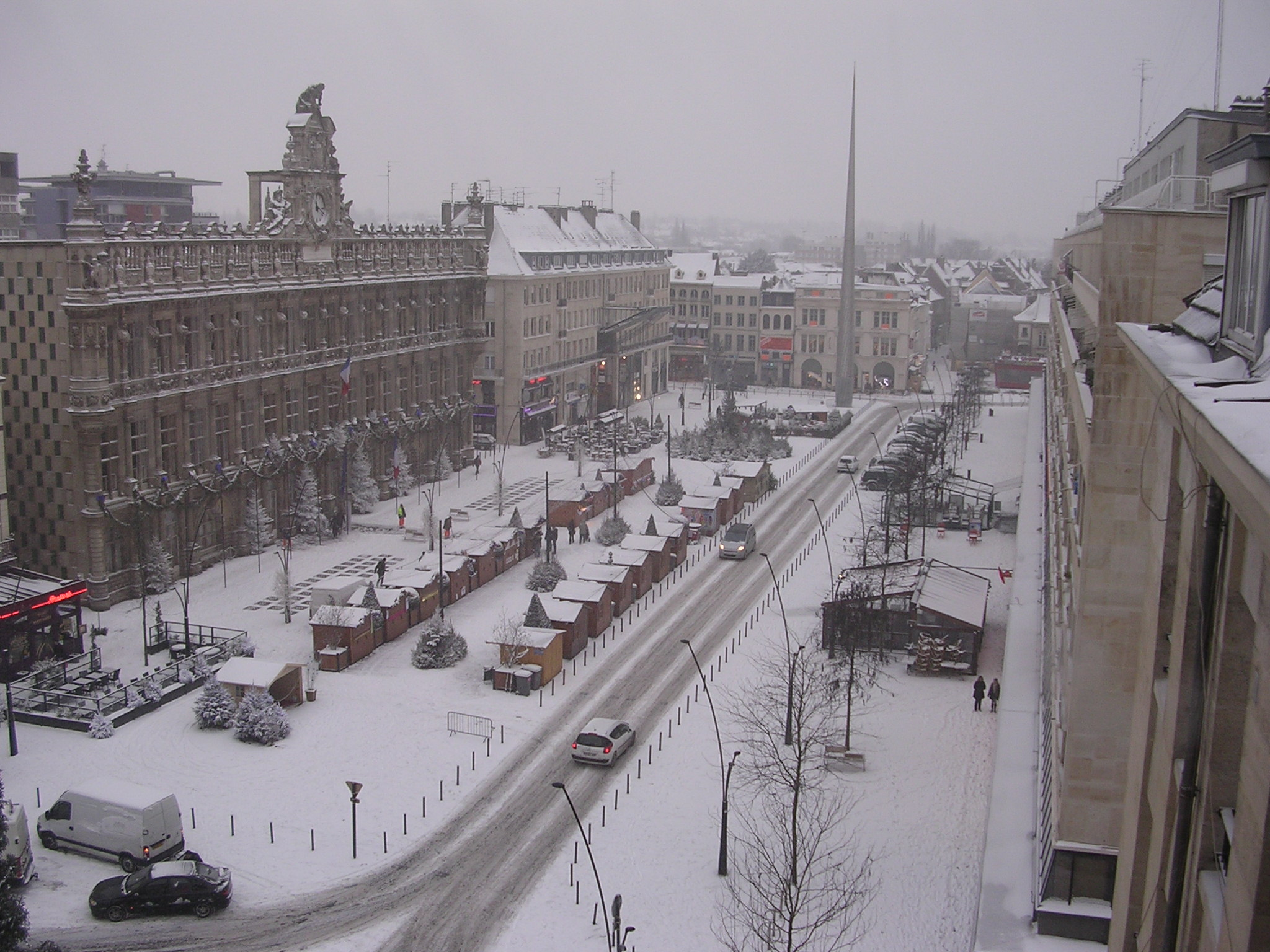 Valenciennes (place d'armes) in winter